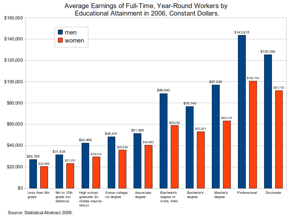 This is a chart illustrating the inequality in wages between men and women when educational attainment is controlled. Source: Statistical Abstracts, 2009.